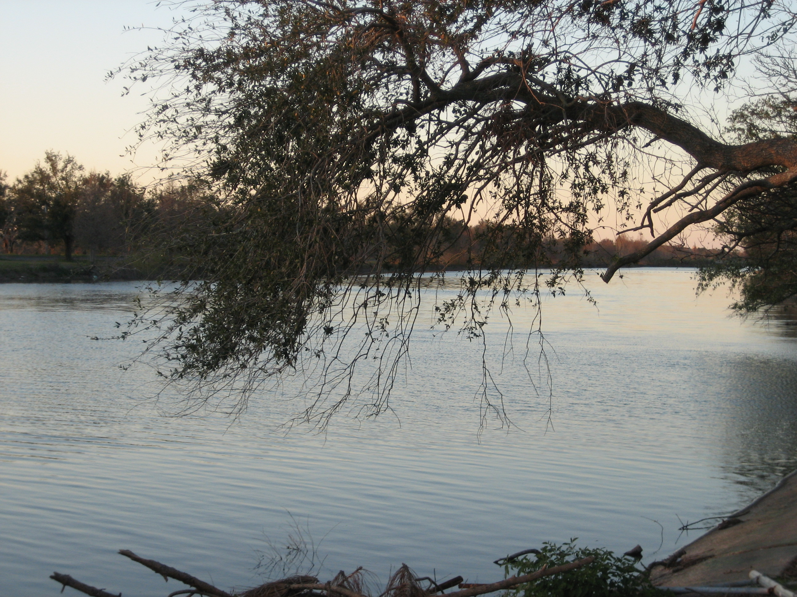 New Orleans: Bayou St. John; view from across from City Park Photo by Infrogmation